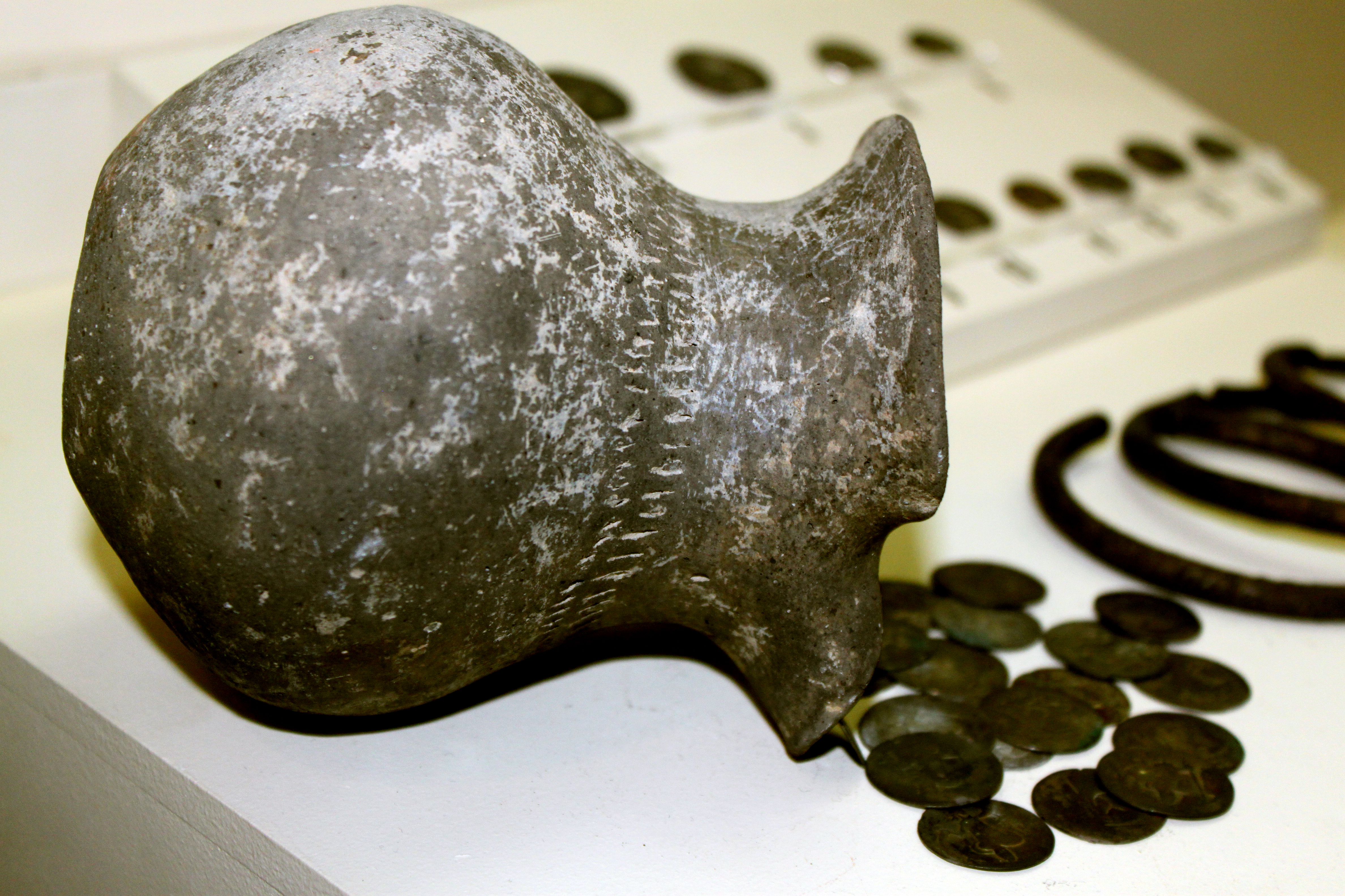 Caucasian Albanian treasures from Nuydi. Museum of History of Azerbaijan